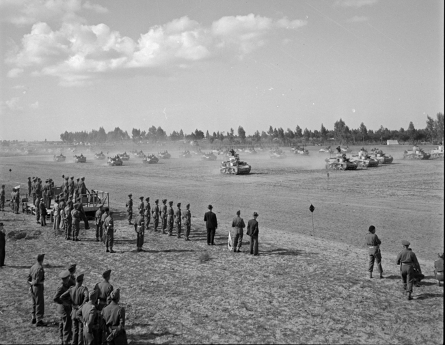 General view of the NZ Divisional Cavalry passing the saluting base in review before the Winston Churchill on the outskirts of Tripoli.